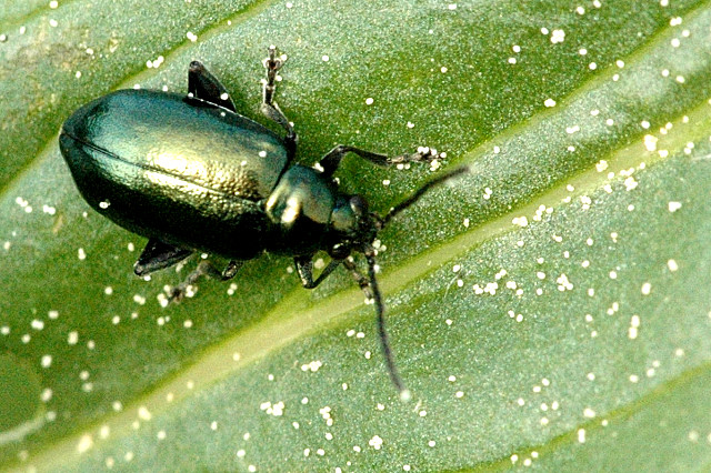 Picture taken in Commanster, Belgian High Ardennes . Species: Altica lythri